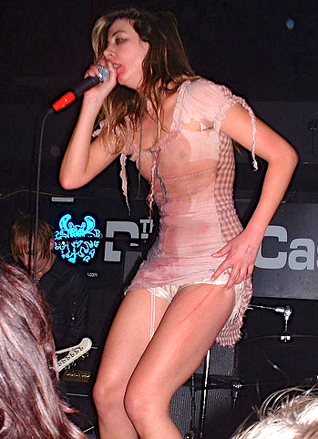 Katie Jane Garside from Queen Adreena, performing at a 'secret gig' as Princess Carwash.